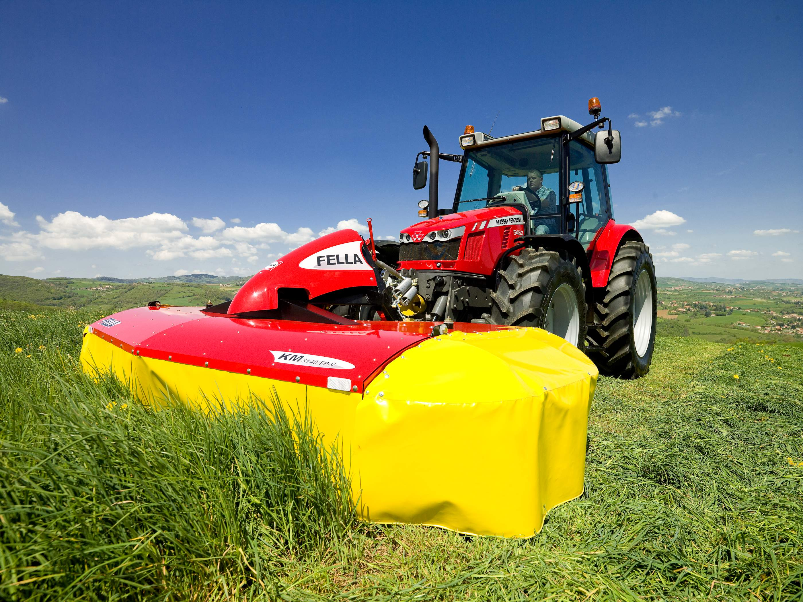 Massey Ferguson 5450 tractor with a new FELLA KM 3140 FP-V drum mower